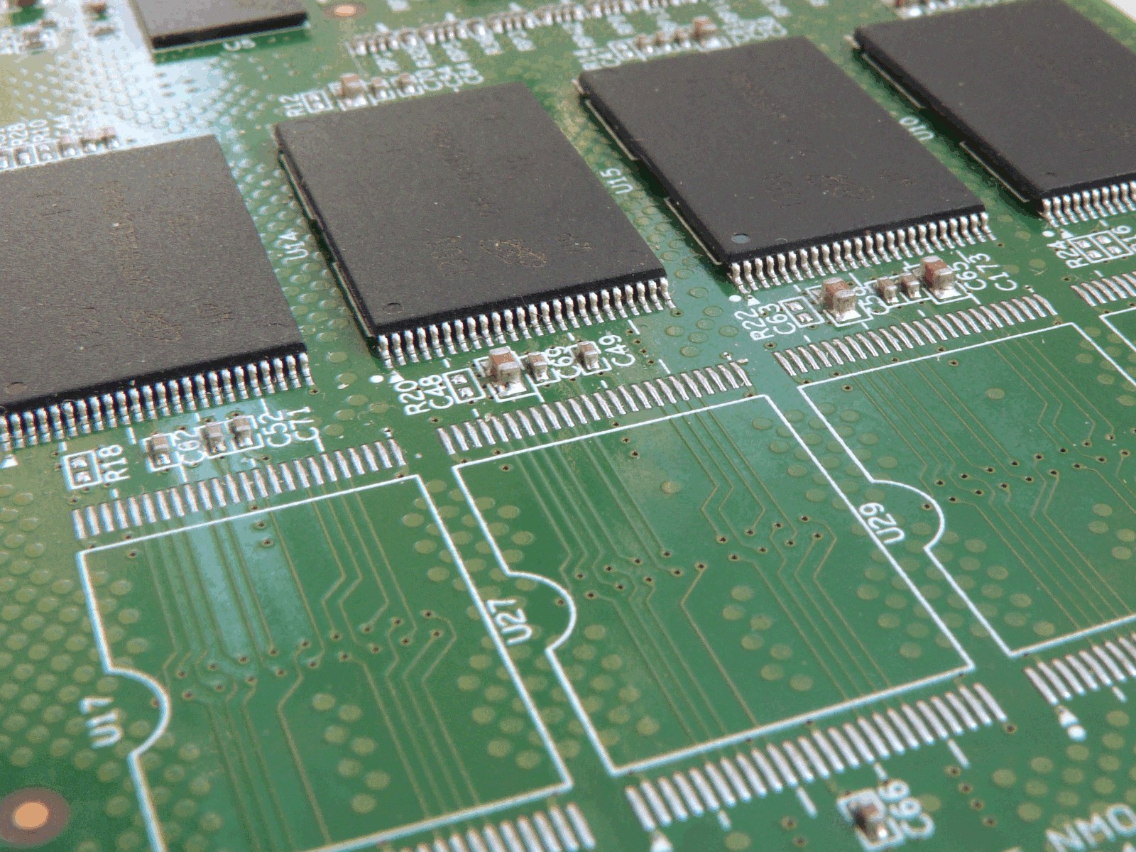 Image showing populated and unpopulated TSOP land patterns.